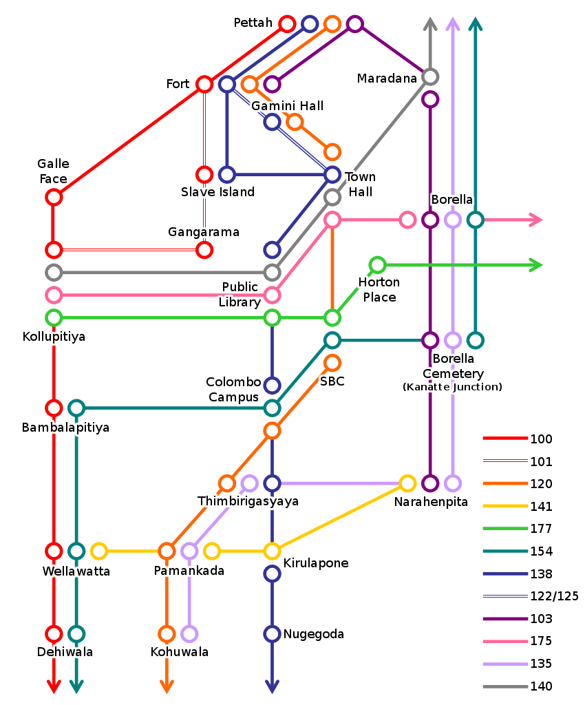 A Topological Map of Bus Routes in Colombo, Sri Lanka Bus Routes: 100 Panadura - Pettah 101 Moratuwa - Pettah 120 Horana/Kesbewa - Pettah 141 Wellawatta - Narahenpita 177 Kollupitiya - Kaduwela 154 Angulana - Kiribathgoda / Bambalapitiya - Kadawatha 138 Homagama/Athurugiriya/Rukmalgama/Matthegoda/Kottawa/Maharagama - Pettah 122 Rathnapura/Awissawella - Pettah 125 Meepe/Padukka - Pettah 103 Narahenpita/Borella - Pettah 175 Kollupitiya - Kohilawatta 135 Kohuwala - Kelaniya 140 Kollupitiya - Wellampitiya